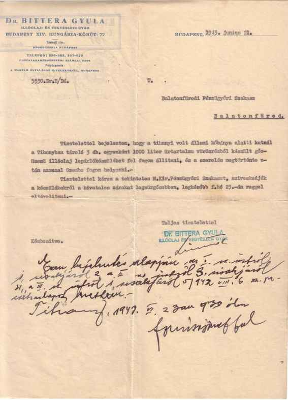 Official Document Of Gyula Bittera For Lavender Pan